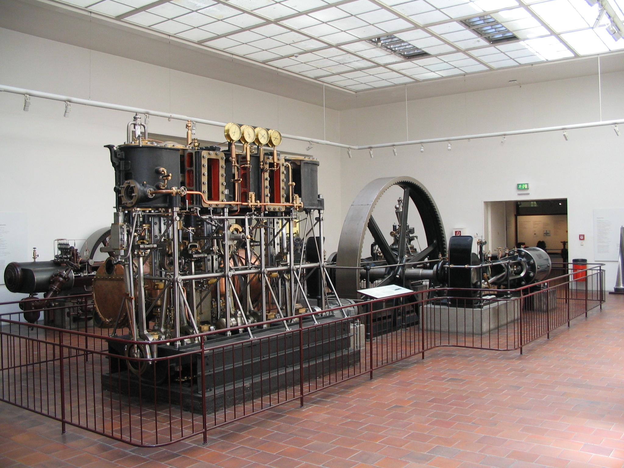 This image shows a photo of a steam engine in the "Deutsches Museum" munich (Germany)